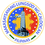 Seal of Caloocan City, Philippines